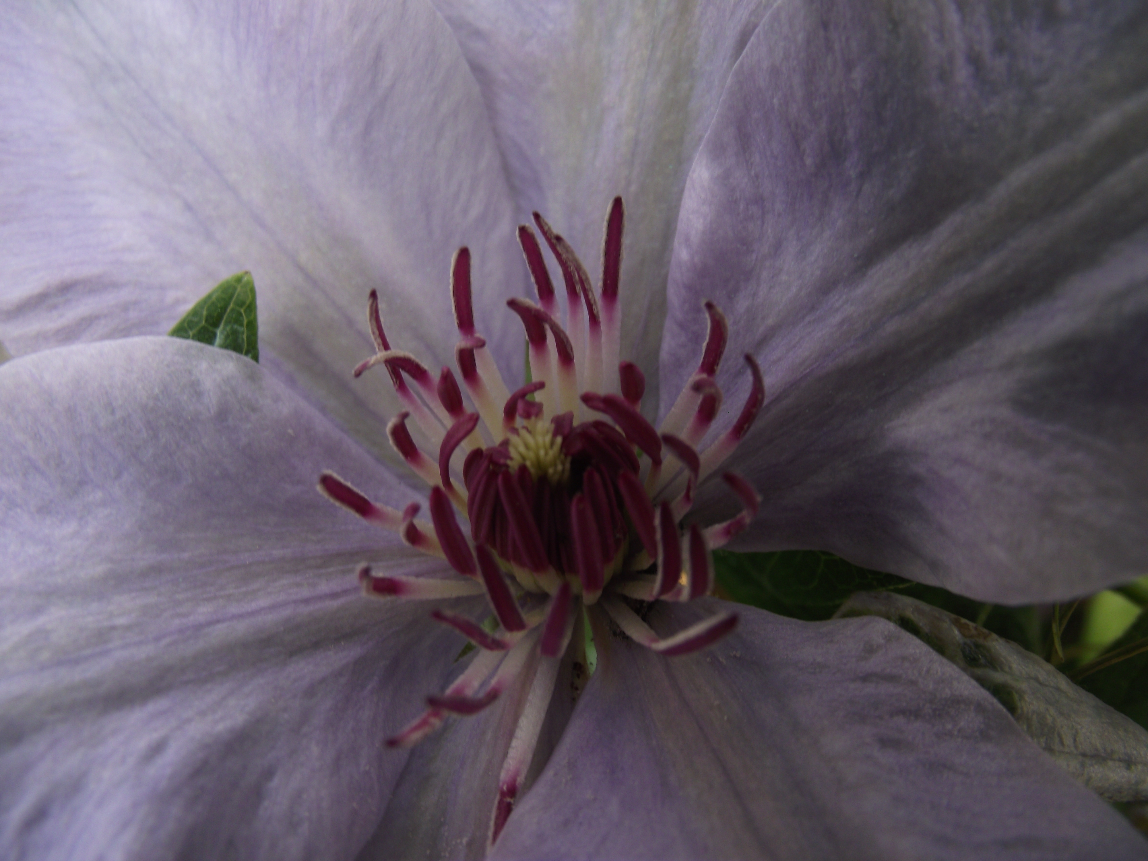 Clematis patens Bernardine 'Evipo061'